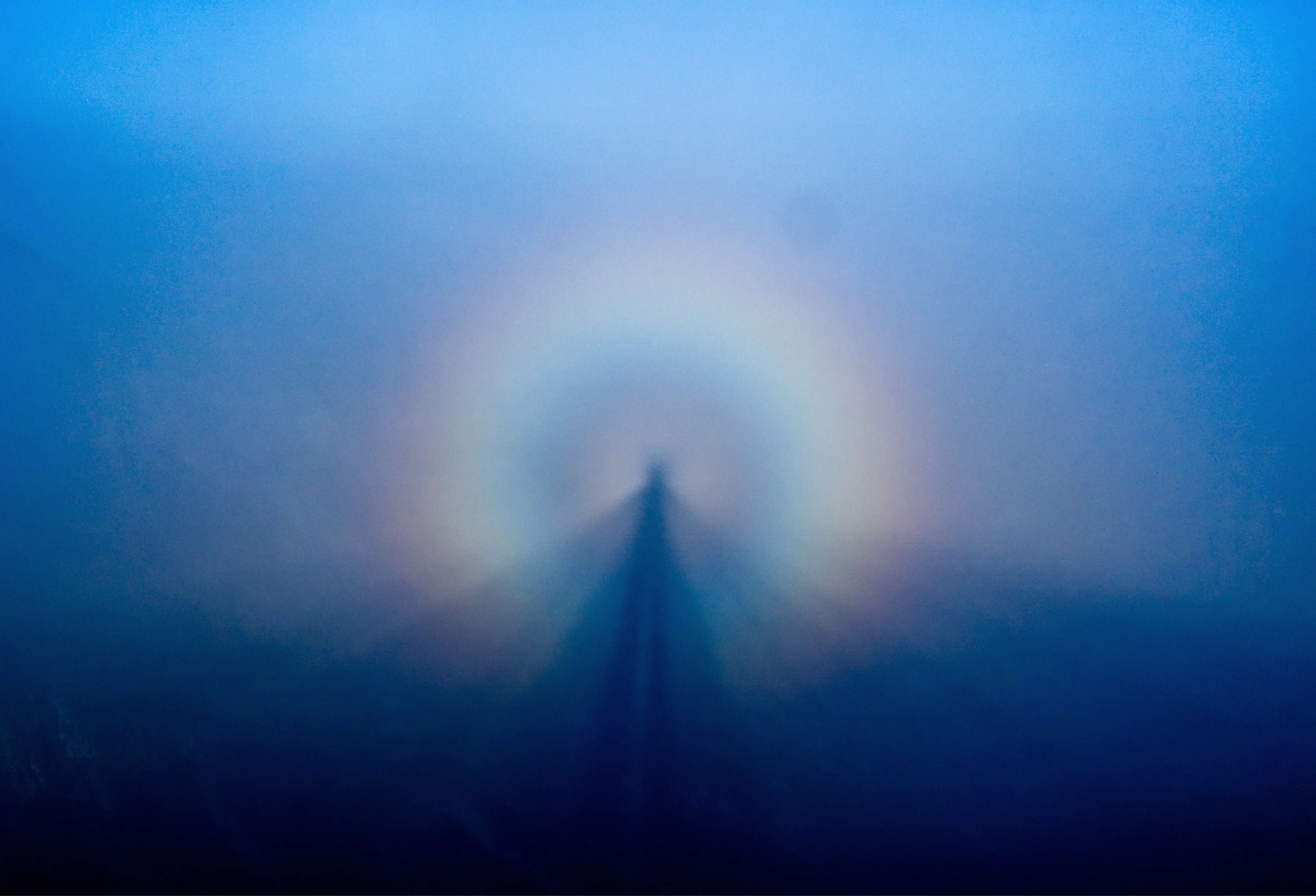 A glory with a Broken specter